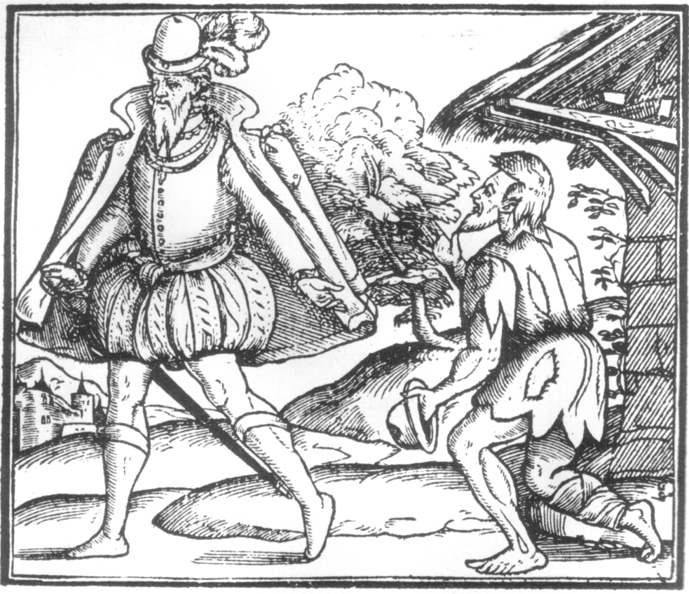 Gentleman giving alms to a beggar: Illustration for "Of Pride" in John Day's A christall glasse of christian reformation, London, 1569